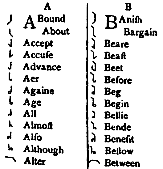 Example of Timothe Bright's Characterie Shorthand